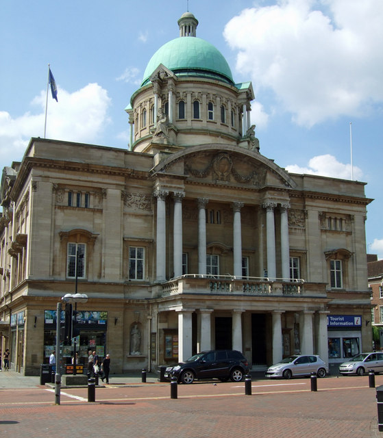 Hull City Hall City Hall, Queen Victoria Square. This Edwardian Baroque building by Joseph H. Hirst dates from 1903-9.